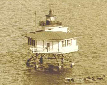 Photo No. AN-4254-12-25; "Stingray Point Lighthouse, VA., Fifth Naval District (Norfolk)"; photo dated June 28, 1928, from United States Coast Guard (original here) cropped and converted to PNG format